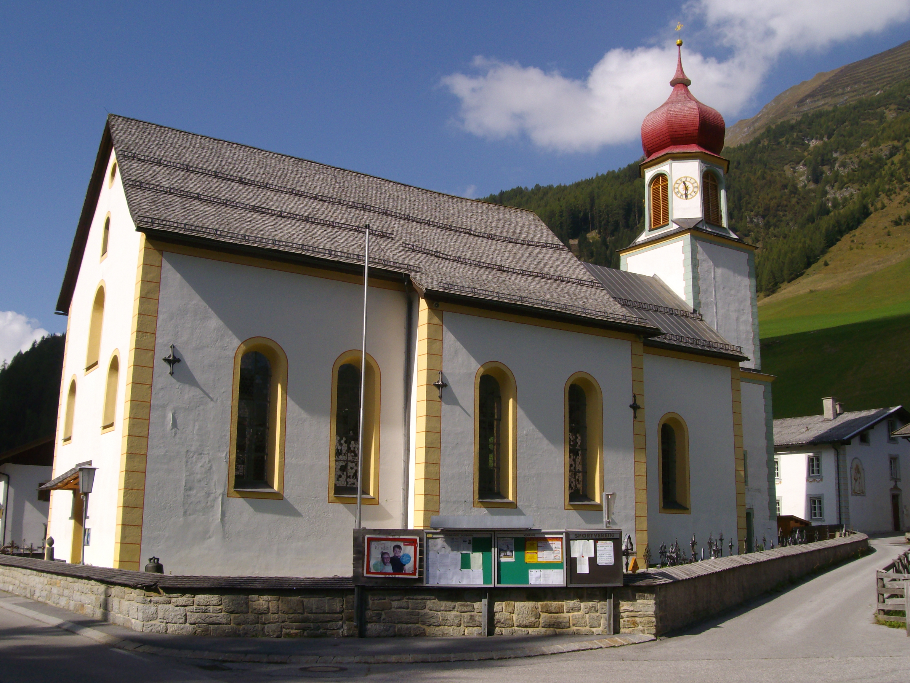 Austria, Tyrol (state), Schmirn. Sankt Joseph parish church.